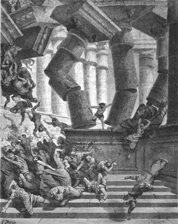 Samson in Dagon Temple